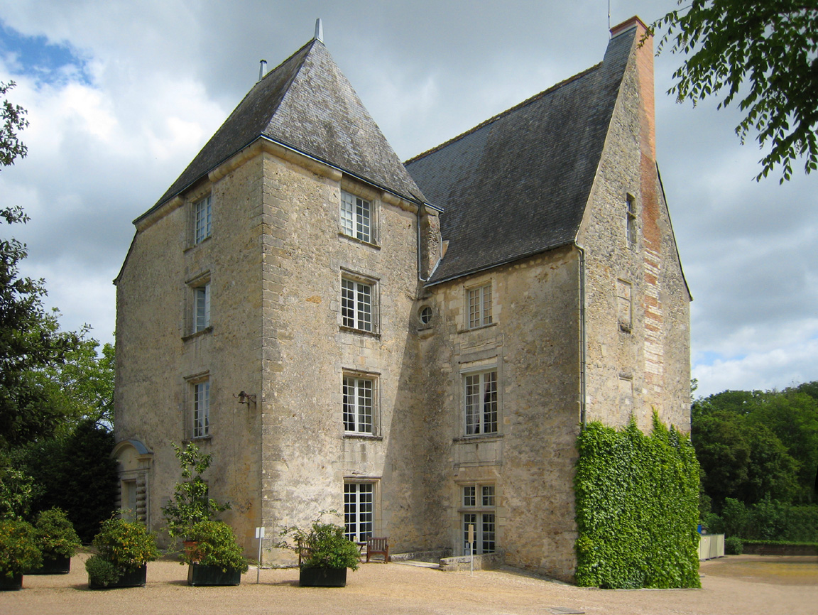 Castle Saché, situated near the town of Saché, Departement Indre-et-Loire, in France